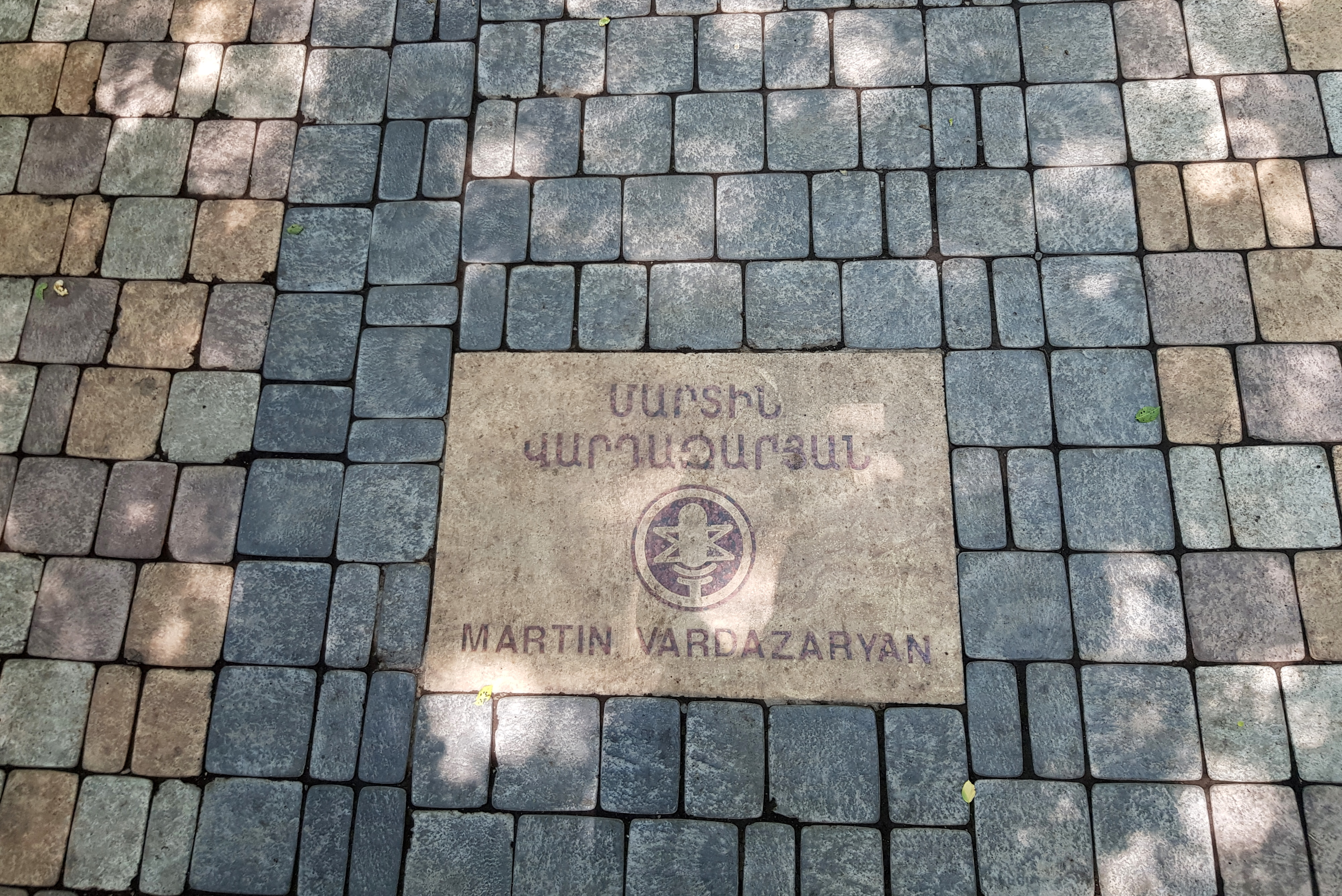 Alley of Devotees, Yerevan